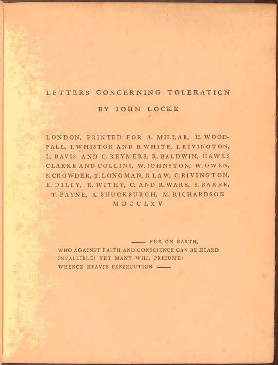 Letter concerning toleration cover, 1765 edition